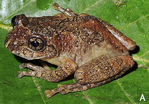 Nasutixalus jerdonii - adult male